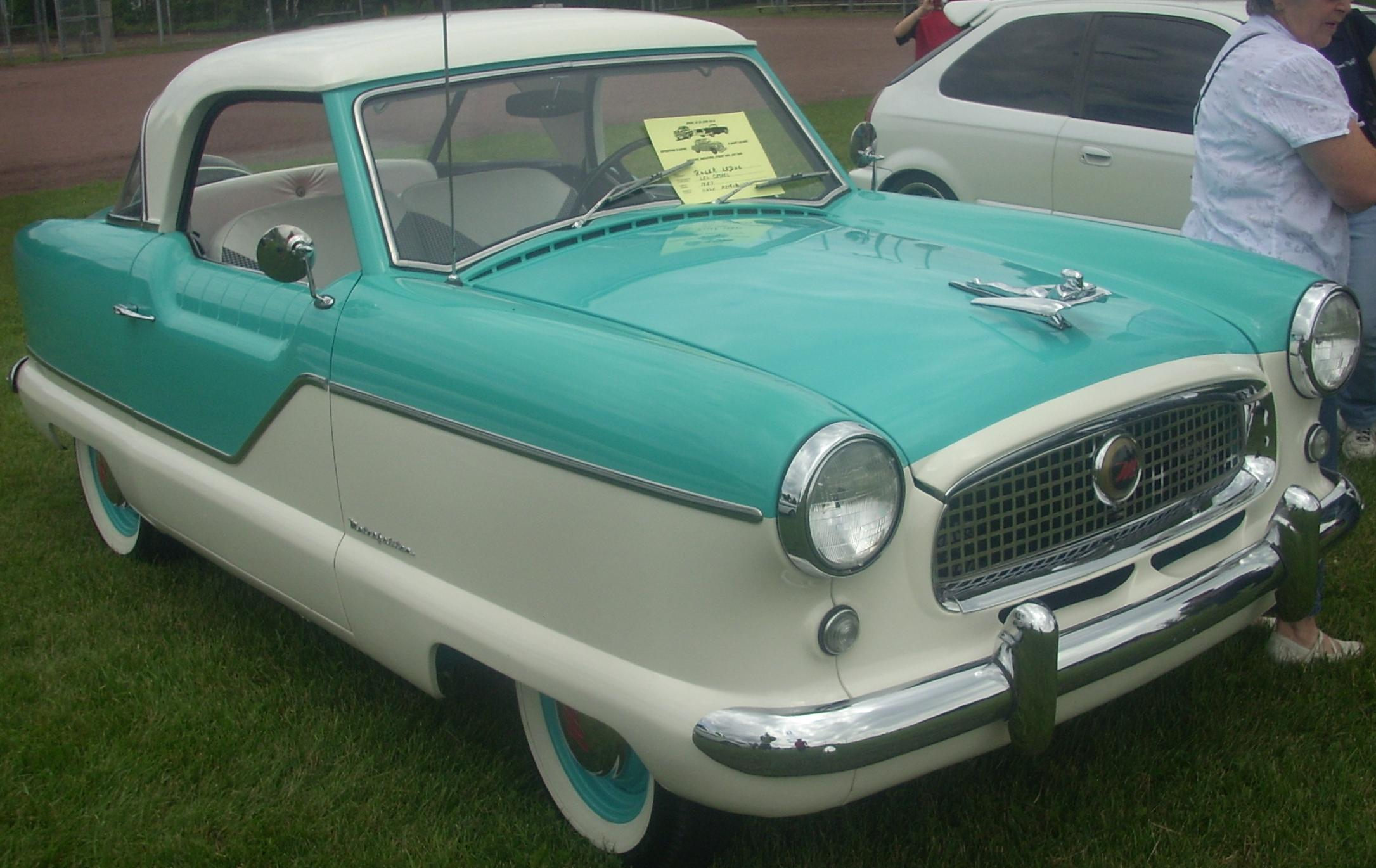 1957 Nash Metropolitan photographed in St. Lazare, Quebec, Canada at the 2010 St. Jean Baptiste Classic Car Show.